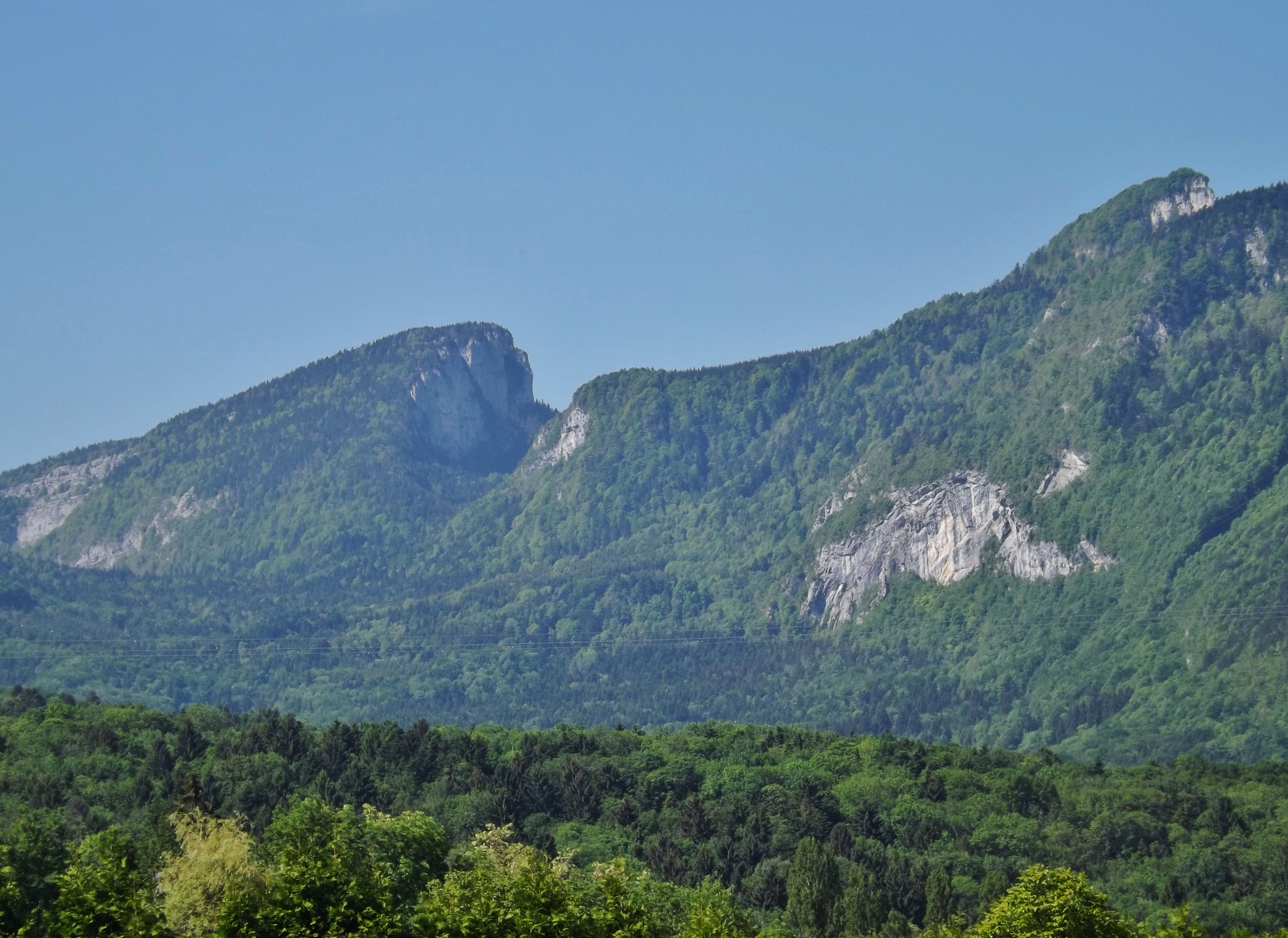 Sight, from Montganole, of the mont Outheran (1,676 meters high) and dent du Corbeley (1,419 m) mounts, in the Chartreuse mountain range, near Chambéry in Savoie, France.